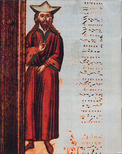 Saint Ioannis Koukouzelis depicted on a 15th century musical codex from the Megisti Lavra Monastery, Mount Athos, Greece.